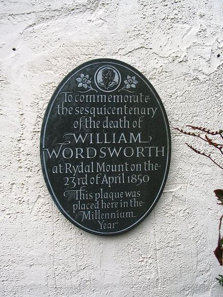 Rydal Mount Plaque Millennium year plaque to commemorate death of William Wordsworth